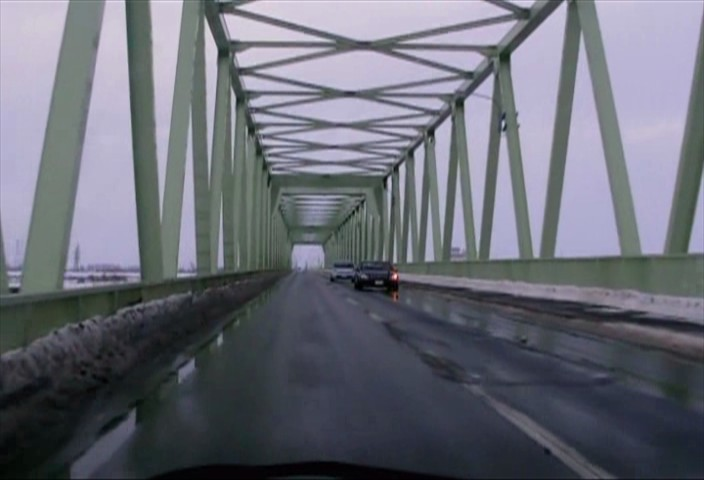 The Ishikari Bridge (Ishikari-ohashi) on the Hokkaido Prefectural Road Route 139